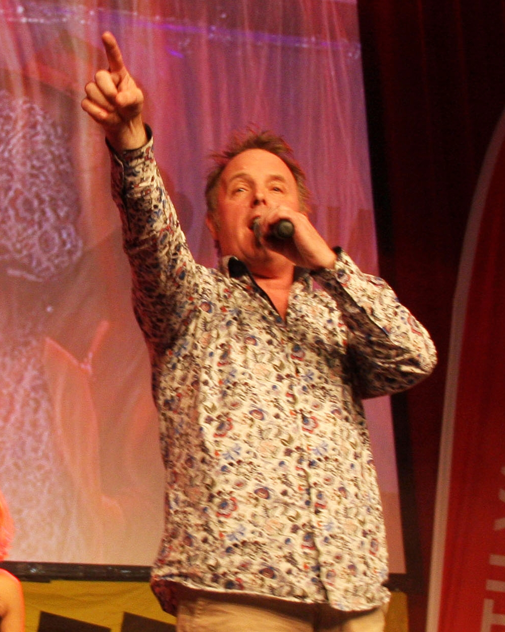 Manifestatie Brabanthallen